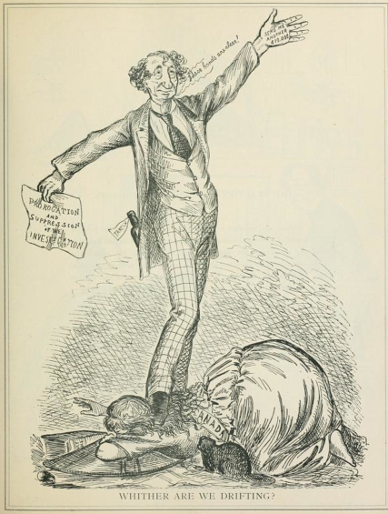 "Whither are we drifting?" Cartoonist Bengough satirizes Prime Minister John A. Macdonald's policy of delay in the wake of the Pacific Scandal.